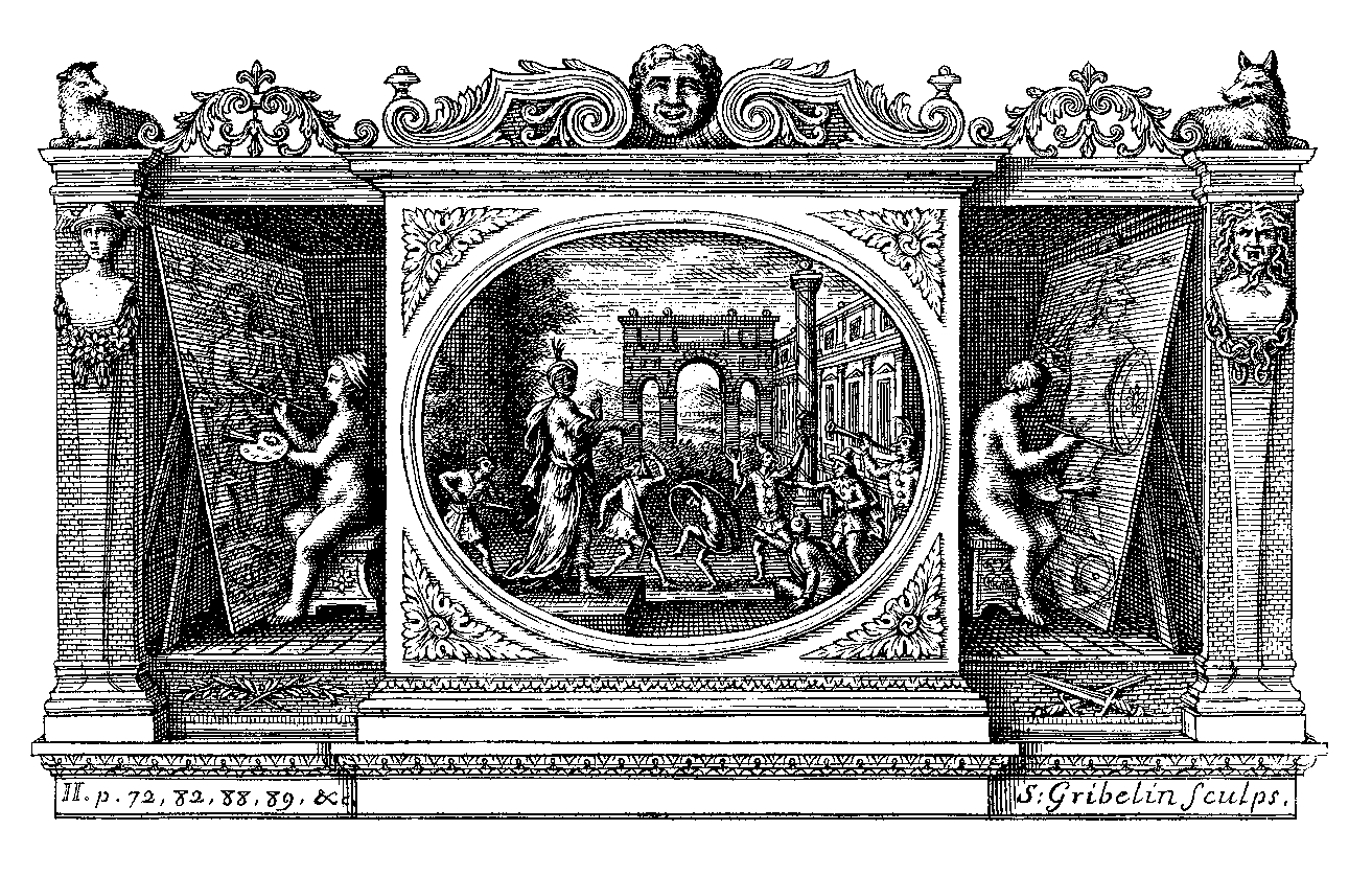 An emblem engraved for Lord Shaftesbury's Sensus Communis according to the author's instructions.